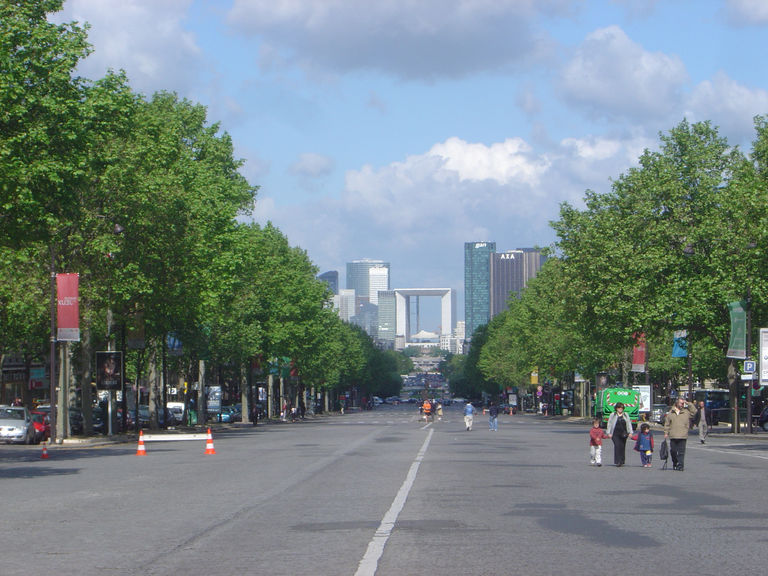 view of the Avenue de la Grande Armée, with La Défense in the distance, from the Arc de Triomphe (Paris)